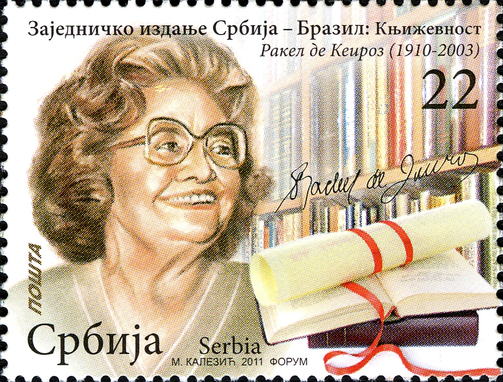 Nobel Prize winners Literature, Press and Comics (Writers). Text on top reads: "Joint issue Serbia–Brazil: Literature / Rachel de Queiroz (1910–2003)"